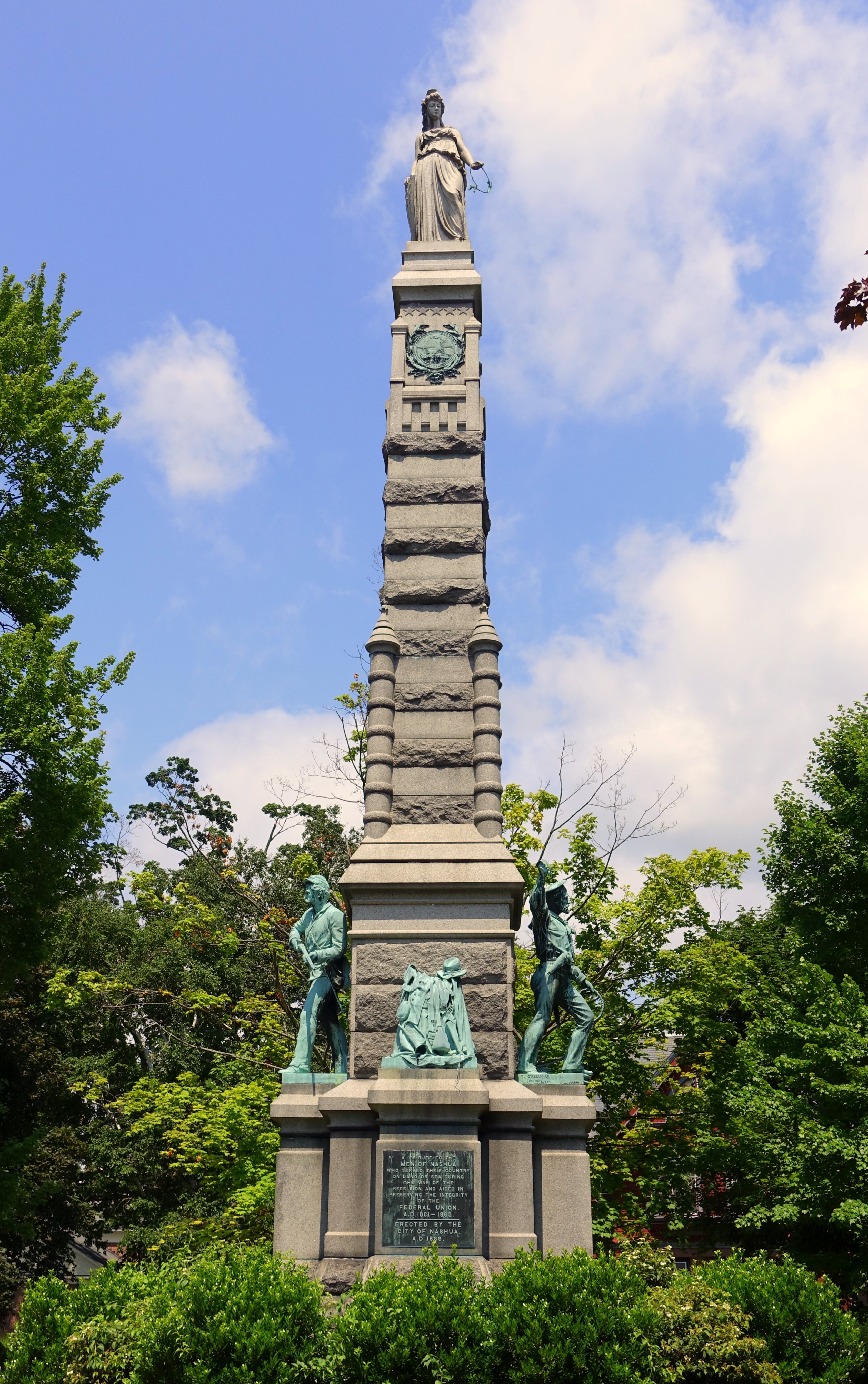 Soldiers and Sailors Monument - Nashua, New Hampshire, USA. Dedicated Oct. 15, 1889. Smithsonian Institution Control Number: IAS NH000274 [1].